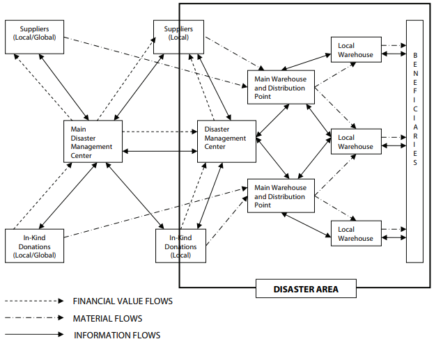 A